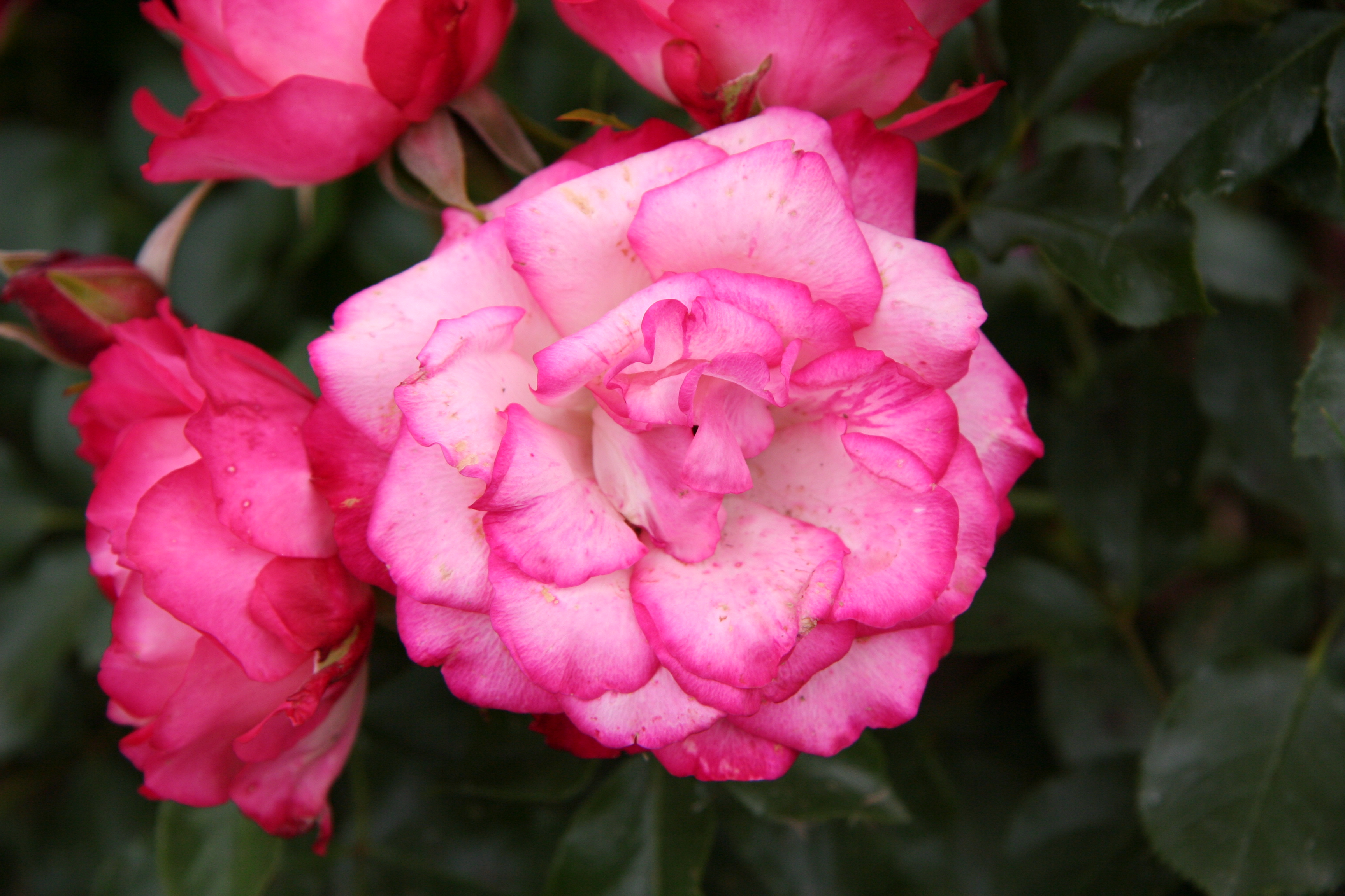 Régine Crespin rose - Bagatelle Rose Garden (Paris, France).